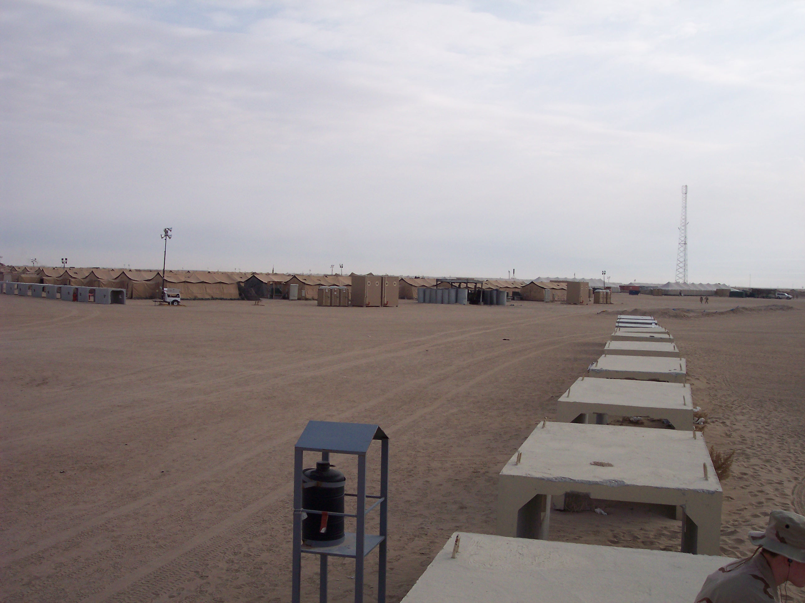 Transient housing tents at Camp Virginia Kuwait used by troops that are pending forward movement into Iraq.